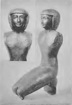 Bronze statuette of the High Priest of Amun Nesbanebdjed (=Smendes), datable to the 21st-22nd Dynasty of Egypt. The statuette belongs to the Warocqué Collection of the Musée Royal de Mariemont (Morlanwelz, Belgium). NOTE: Although Petrie identified the owner as Smendes II, this statue actually may represent both Smendes II and Smendes III. More infos here